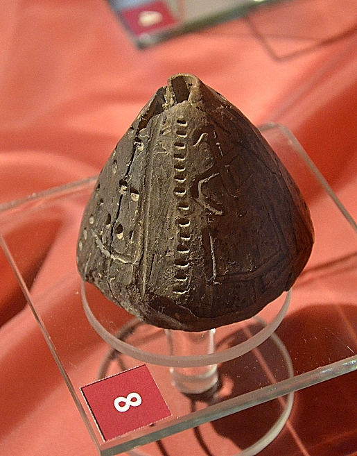 clay rattle, Trstene pri Hornade, 2nd c. AD